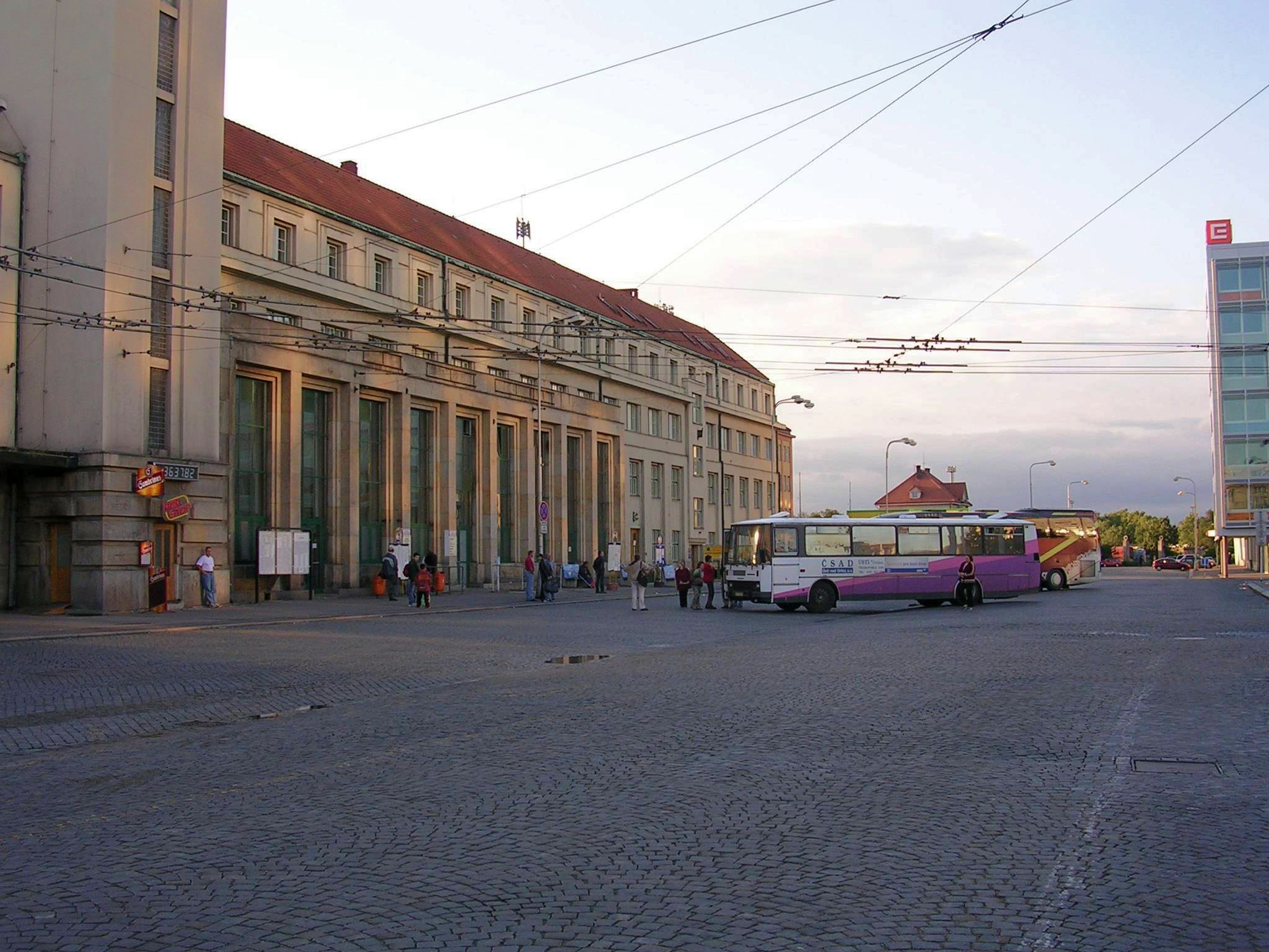 The old bus station in Hradec Králové in front of the train station, Czech Republic